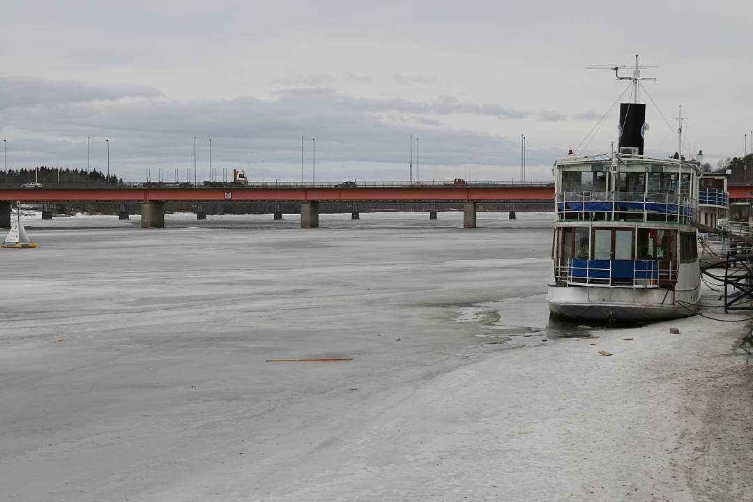 the boat café at the umeälv in umeå, sweden.